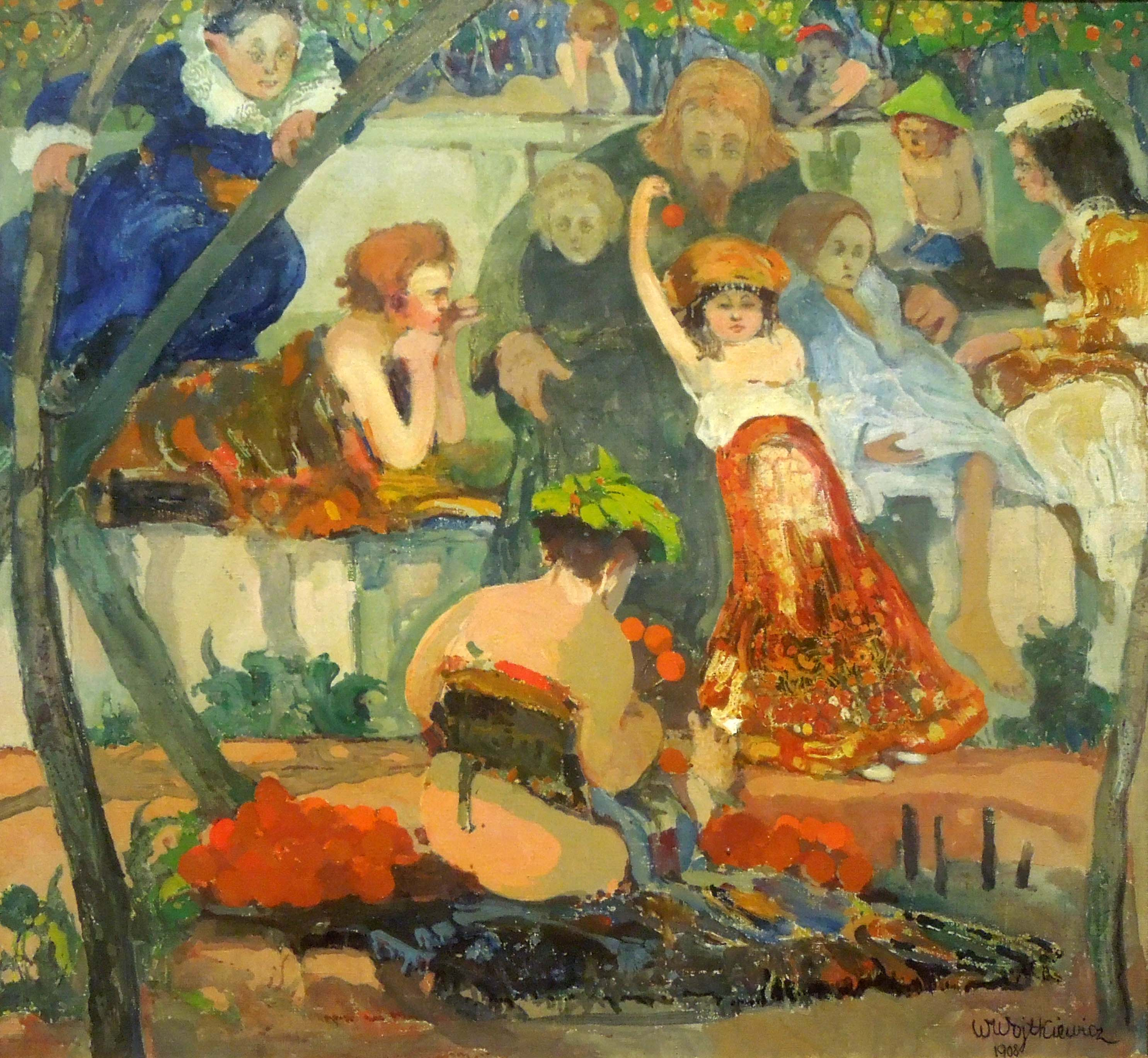 Witold Wojtkiewicz - Christ and Children, from the Ceremonies series